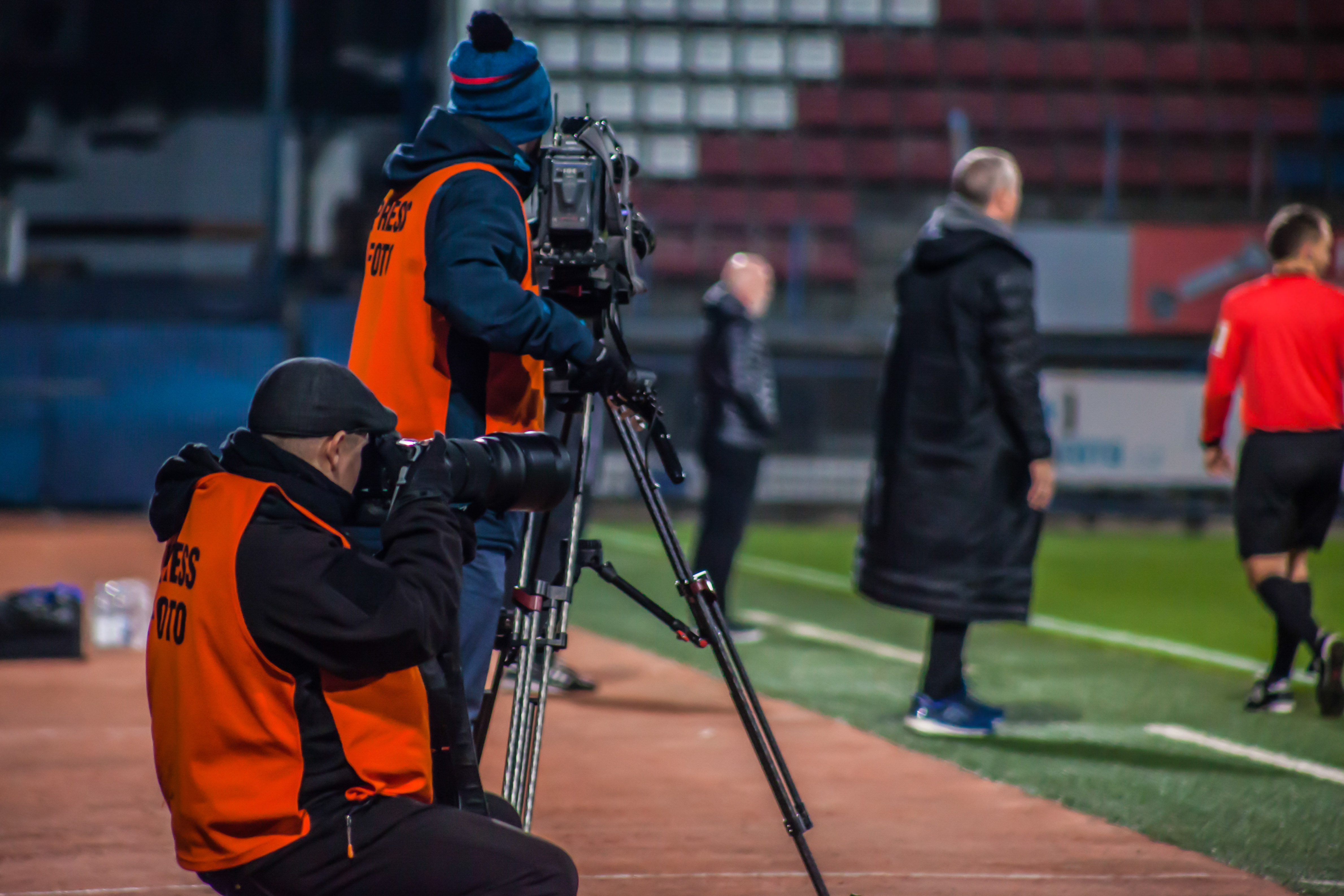 Sports photographer and cinematographer at football match SK Sigma Olomouc-FC Fastav ZLín (2.1), Ander's stadium, Olomouc, Olomouc District, Czechia